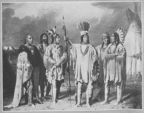 Reproduction of the "Blackfoot Chiefs" painting by Paul Kane, taken from the e-text "On the Old Athabaska Trail" at Project Gutenberg Canada. The book was published in 1926 in Canada/England, but the painting is public domain as it was painted before Mr. Kane's death in 1871. Original ebook text below: This ebook is made available at no cost and with very few restrictions. These restrictions apply only if (1) you make a change in the ebook (other than alteration for different display devices), or (2) you are making commercial use of the ebook. If either of these conditions applies, please check before proceeding. This work is in the Canadian public domain, but may be under copyright in some countries. If you live outside Canada, check your country's copyright laws. If the book is under copyright in your country, do not download or redistribute this file. Title: On the Old Athabaska Trail Author: Burpee, Lawrence Johnstone (1873-1946) Illustrator: Kane, Paul (1810-1871) Illustrator: Warre, Henry James (1819-1898) Date of first publication: 1926 Date first posted: 6 January 2010 Date last updated: 7 January 2010 Project Gutenberg Canada ebook #450